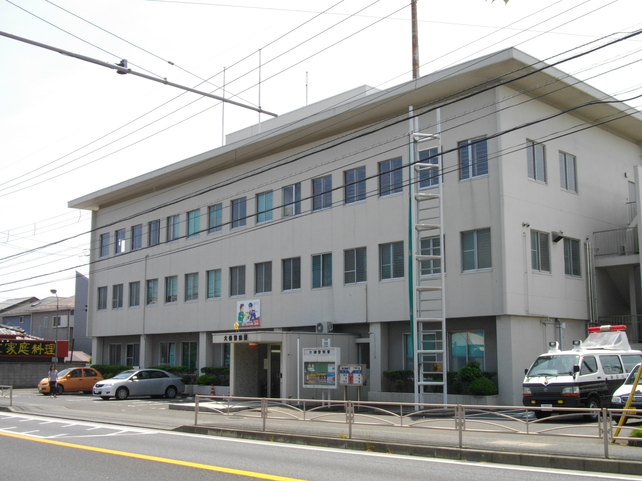 Oiso Police Station